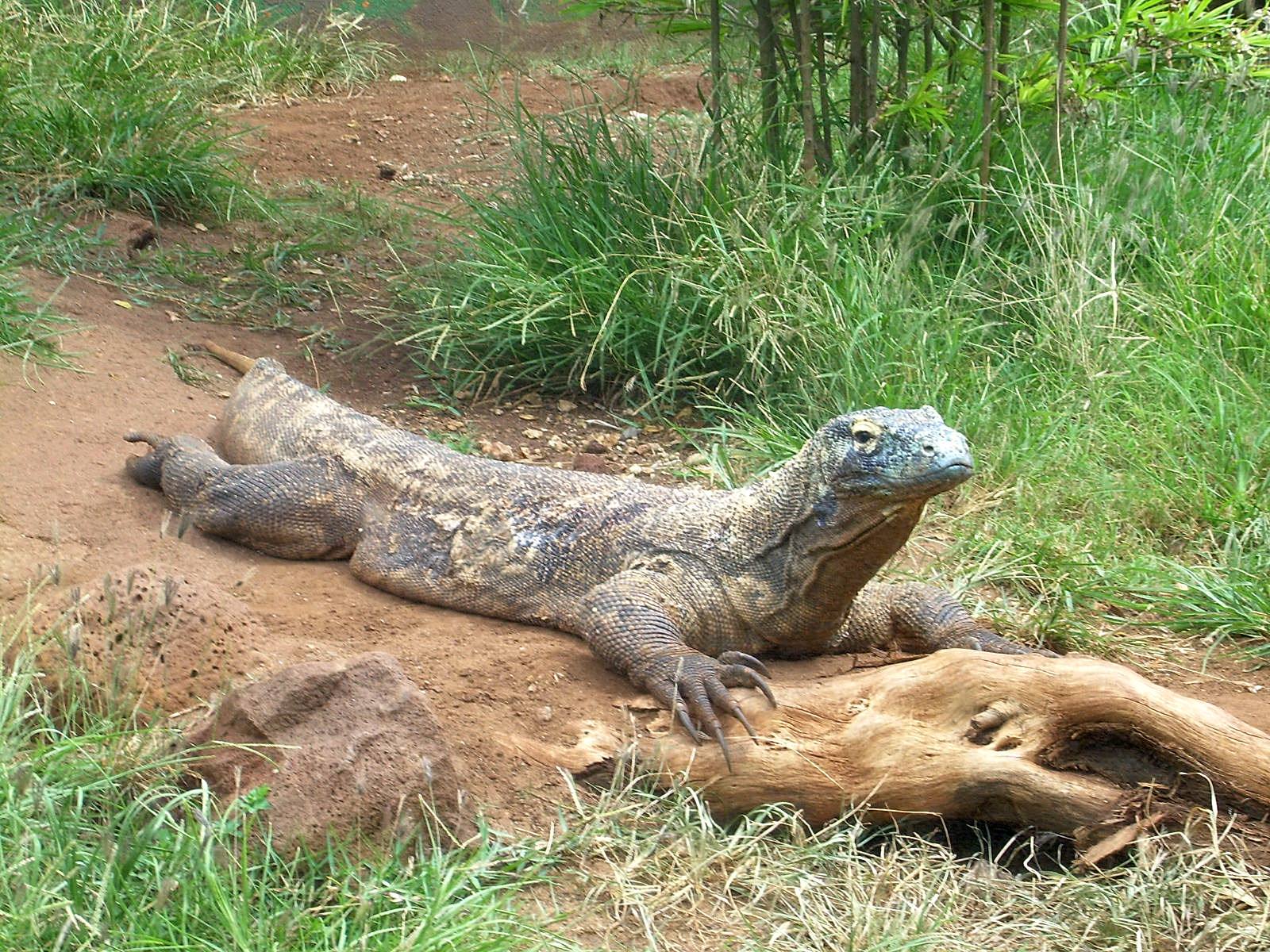 Komodo dragon from the Waikiki Zoo